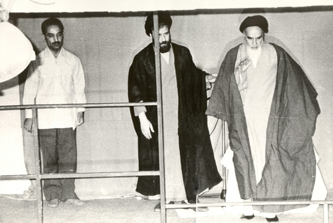 Mohammad Ali Rajaei, Seyyed Ahmad Khomeini, Ayatollah Khomeini